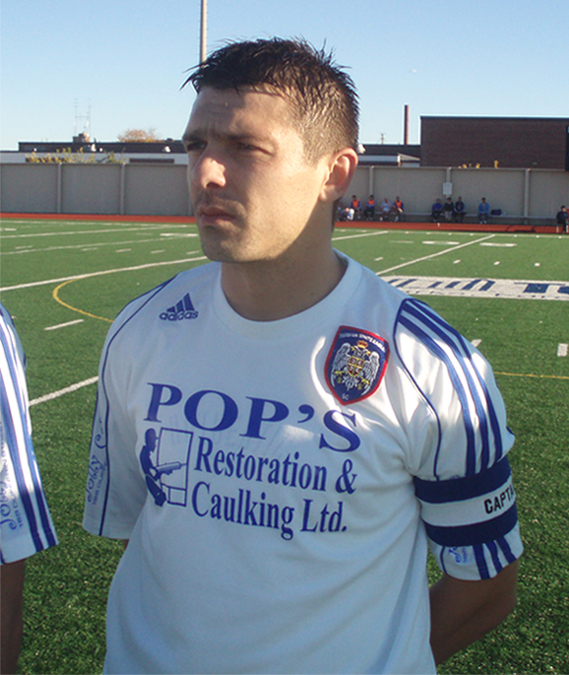 Saša Viciknez, the 2006 CSL MVP, stands during the Canadian national anthem prior to the 2006 CSL semifinal between the Serbian White Eagles and the Windsor Border Stars.